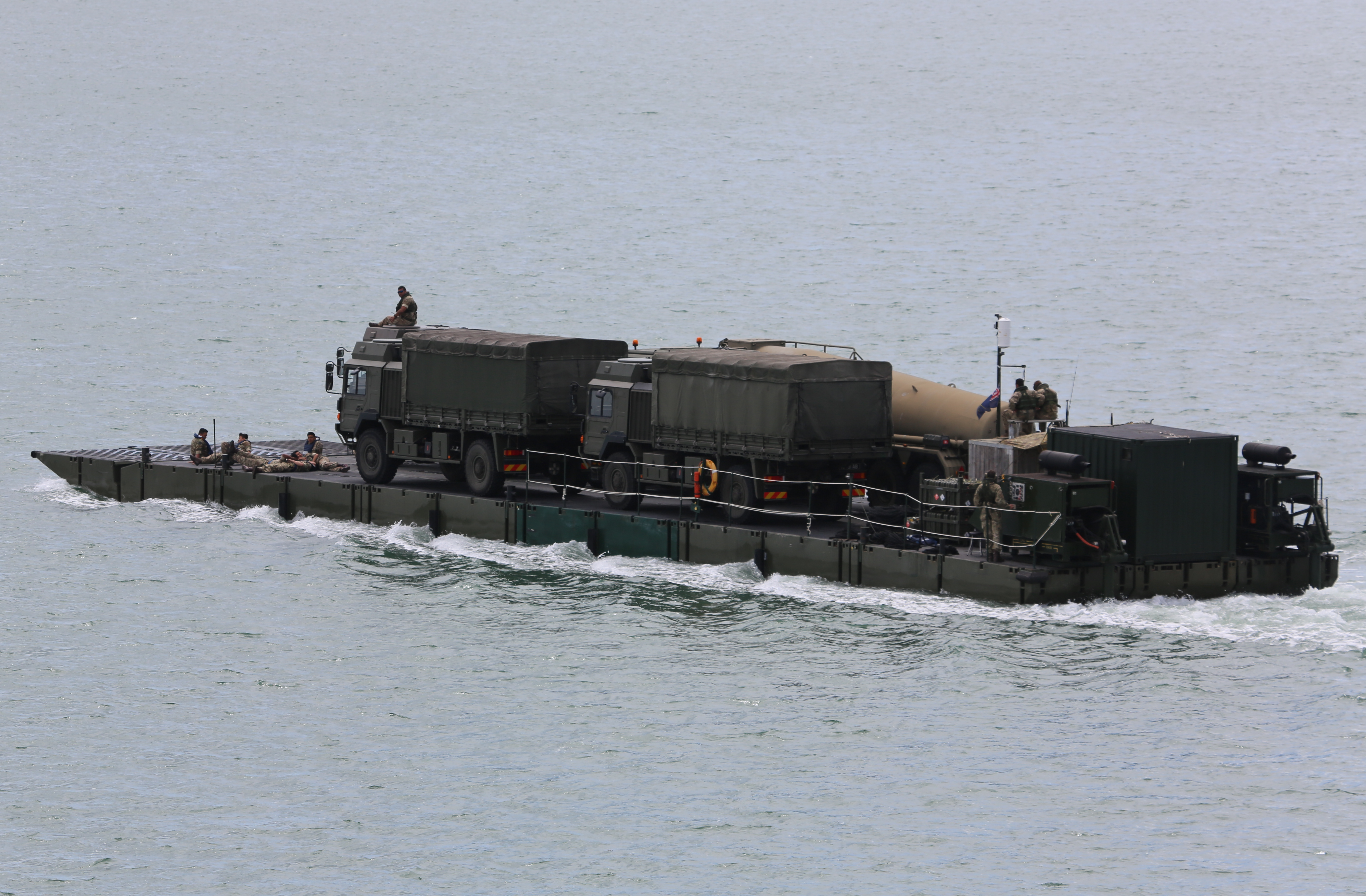 Photo of a Mexeflote operating in the solent